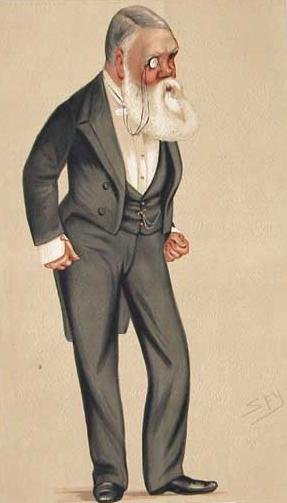 Chromolithographic caricature of the English writer Tom Taylor (1817–1880). Caption read "Punch".